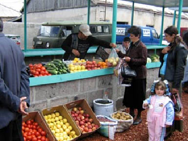 USAID funds bring new life to a city’s most popular place and boost the local economy of Ninotsminda.